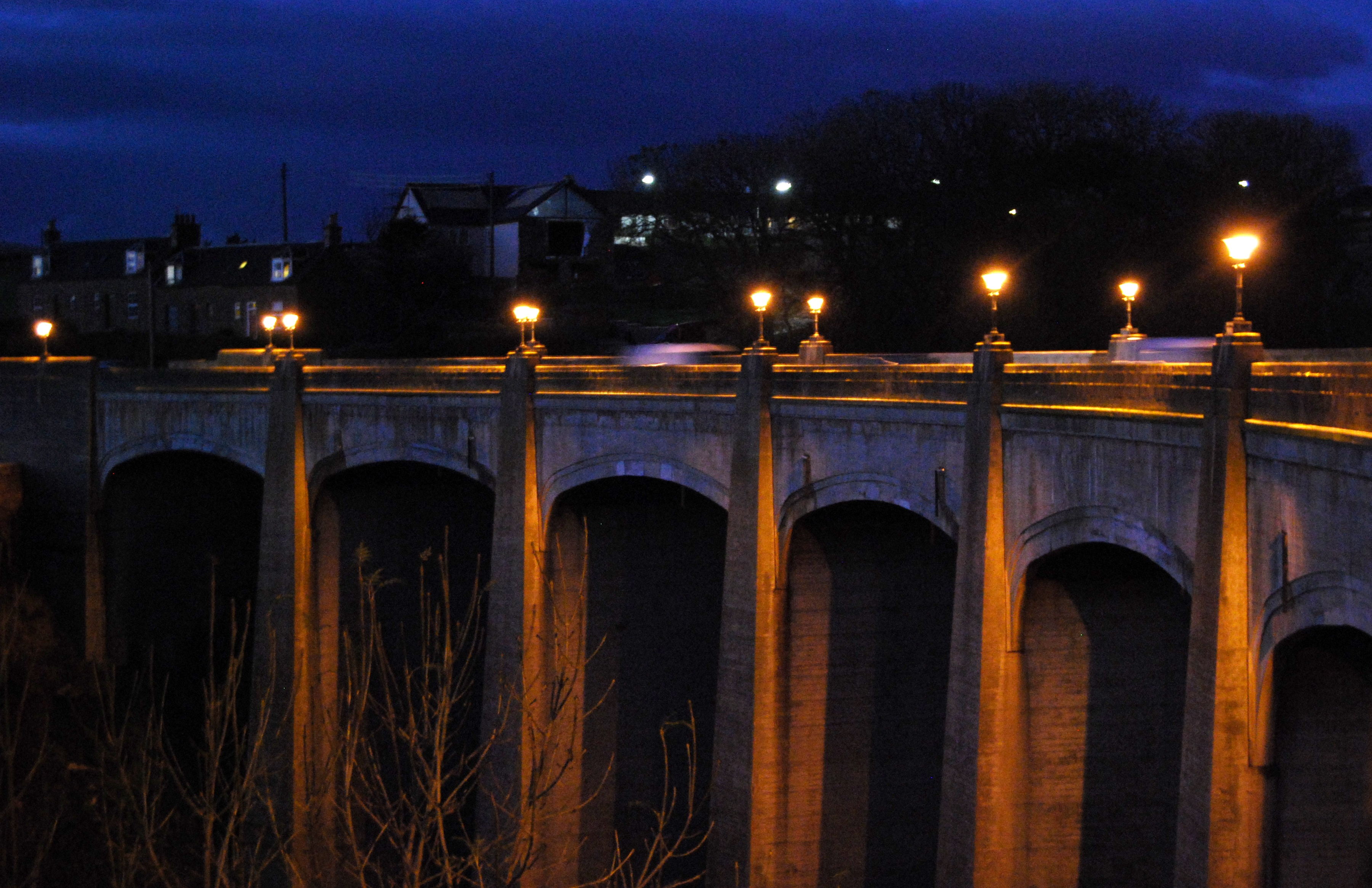 Inverbervie Bridge. Impressive and Elegant curved structure.